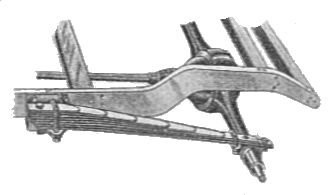 Quarter elliptic spring mounting (Manual of Driving and Maintenance).jpg